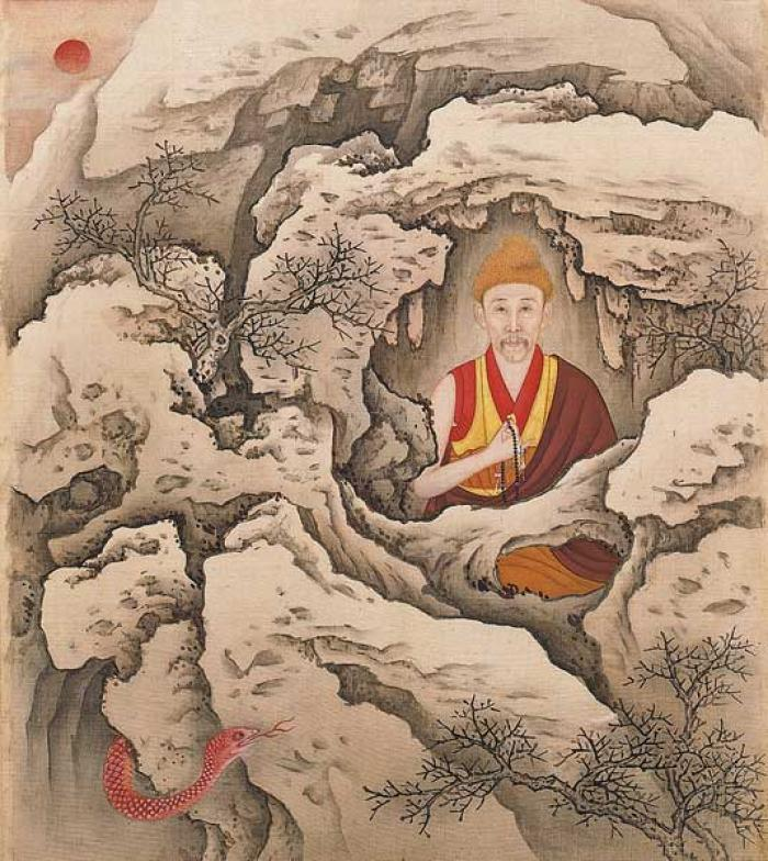 The Emperor depicted as a Tibetan Lama. From Album of the Yongzheng Emperor in Costumes, by anonymous court artists, Yongzheng period (1723—35). One of 14 album leaves, colour on silk. The Palace Museum, Beijing.